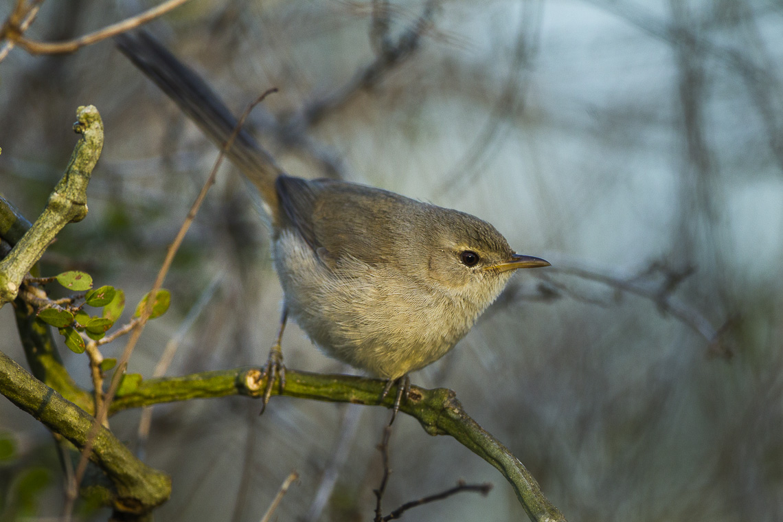 Subdesert Brush-Warbler - Madagascar_S4E8671